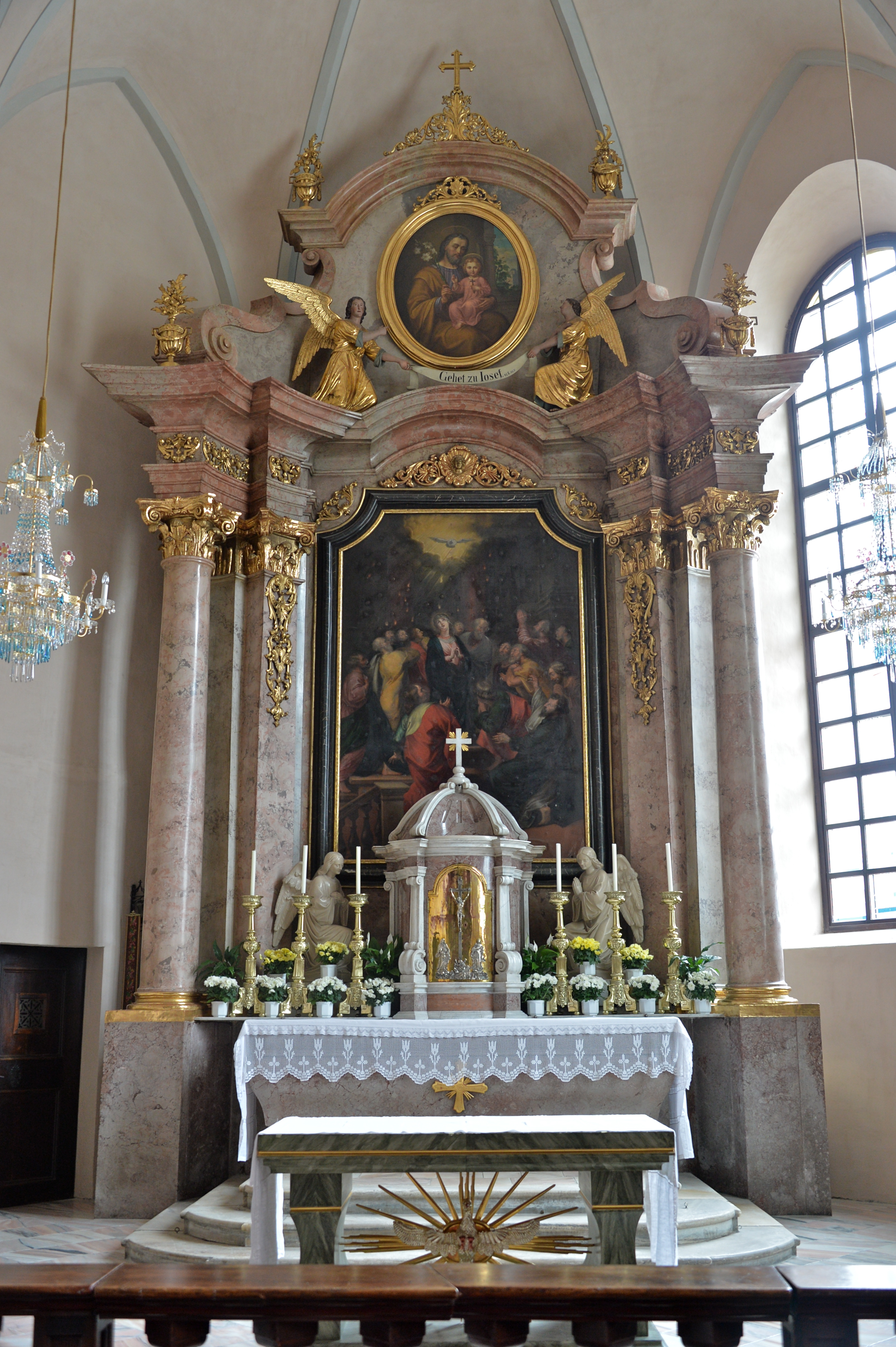 Baroque high altar with the altar piece painting of the Descent of the Holy Spirit, signed “Lorenz Glaber 1640”, at the Heiligengeistkirche on Heiligengeistplatz, Klagenfurt, Carinthia, Austria, EU